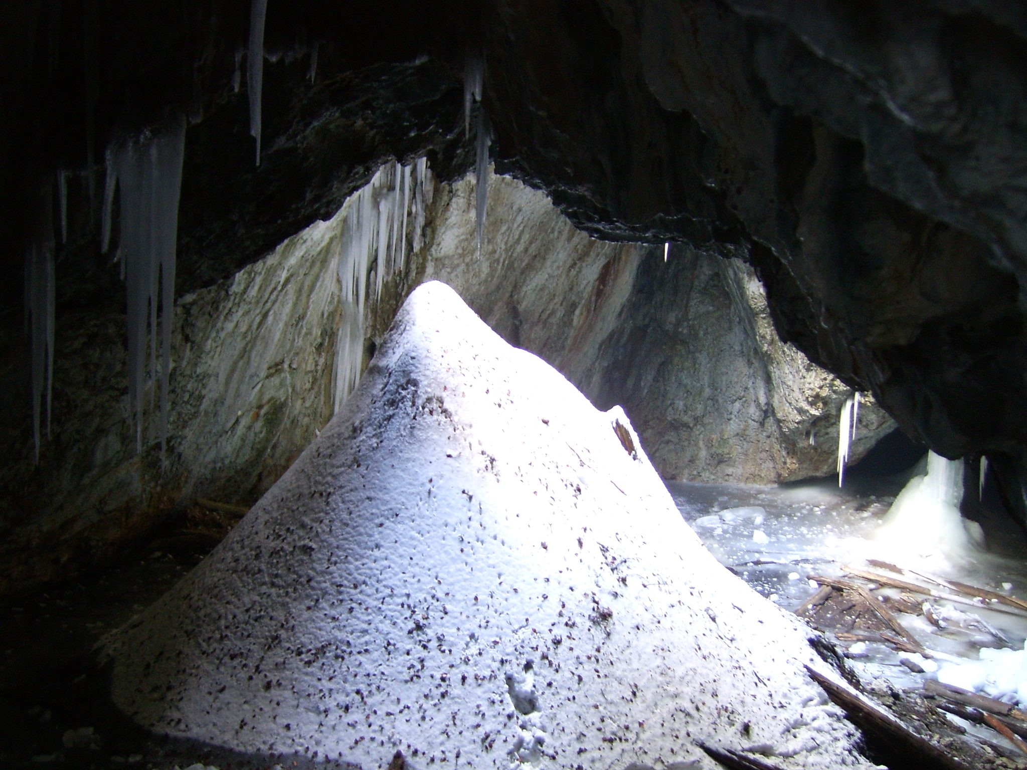 Ice column in the Focul Viu Ice Cave, Padis Plateau, Romania.